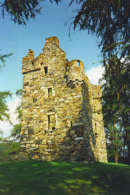 Knock Castle in Summer.